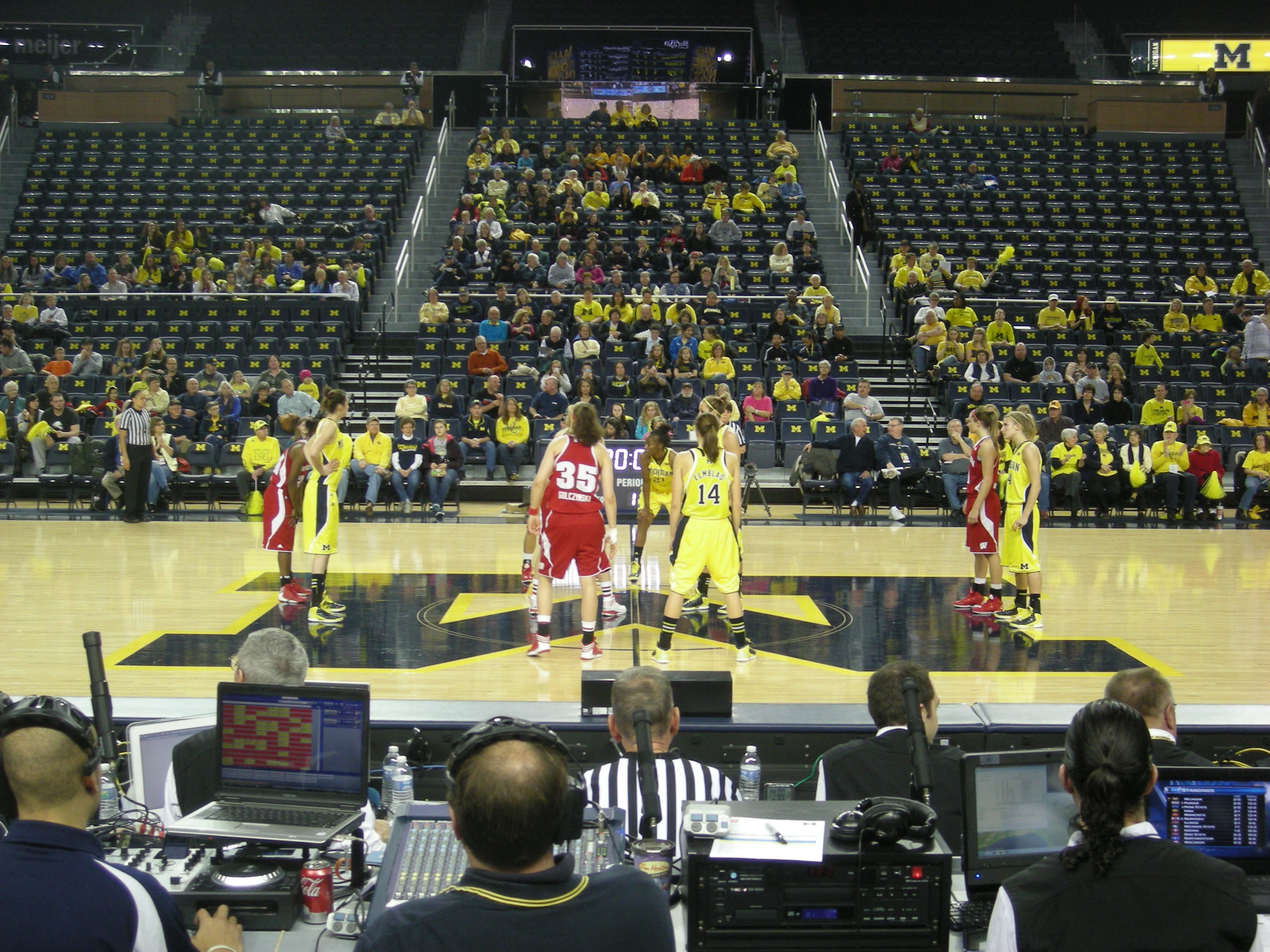 First-half action during the Wisconsin Badgers vs. Michigan Wolverines women's basketball game at Crisler Center in Ann Arbor, Michigan (United States). Michigan won 54–43.